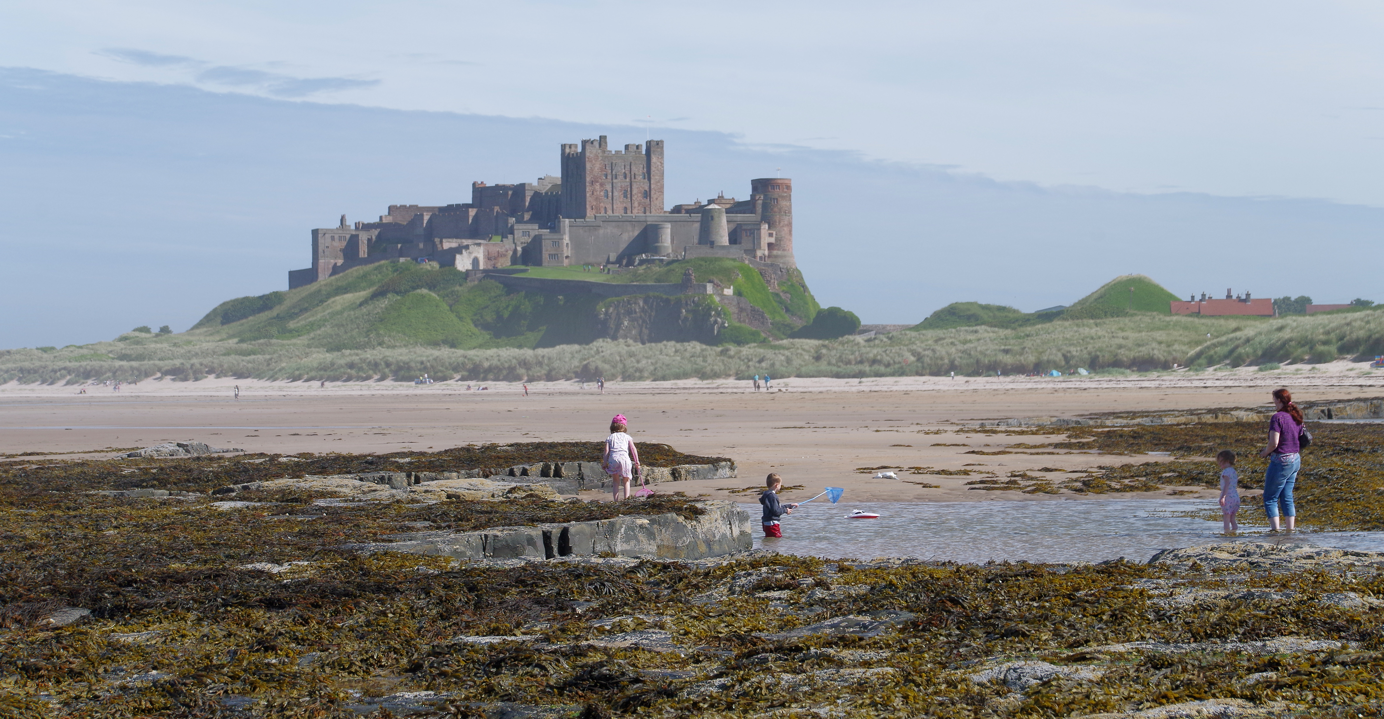 Bamburgh Castle, seen from the beach to the north.